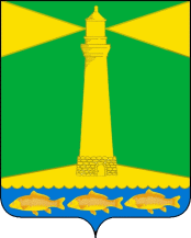 Coat of arms of Shabelskoye, Krasnodar Krai, Russia.